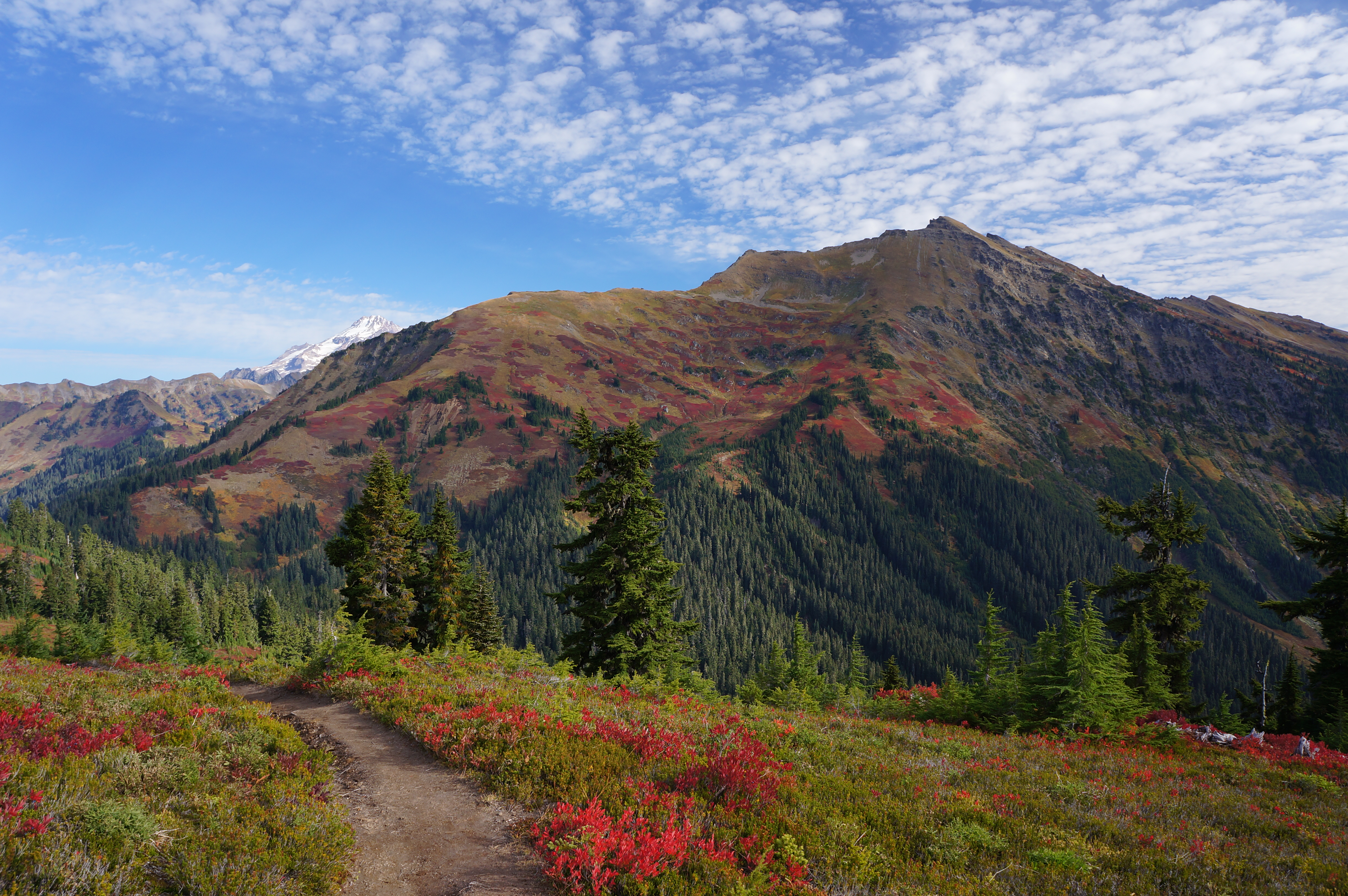 Indian Head Peak seen from Pacific Crest Trail. Glacier Peak Wilderness in WA state